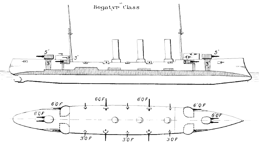 Sketch of the Russian protected cruisers Bogatyr class (slightly inaccurate).